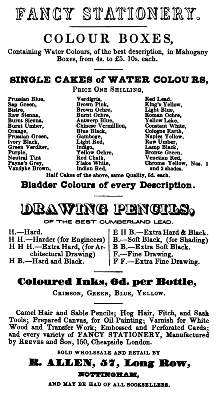 R. Allen, Fancy Stationery, Long Row, Nottingham